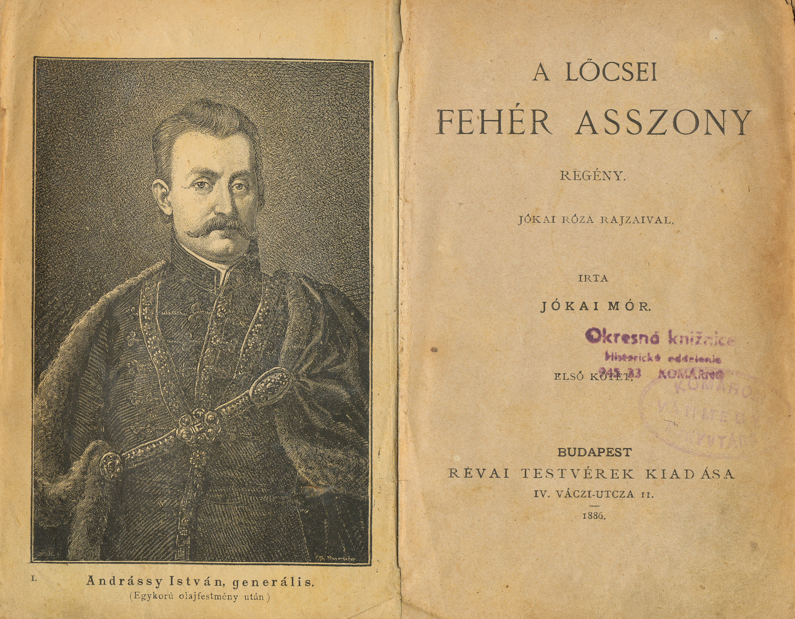 First pages of the Novel A lőcsei fehér asszony